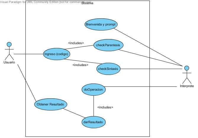 Casos de Uso